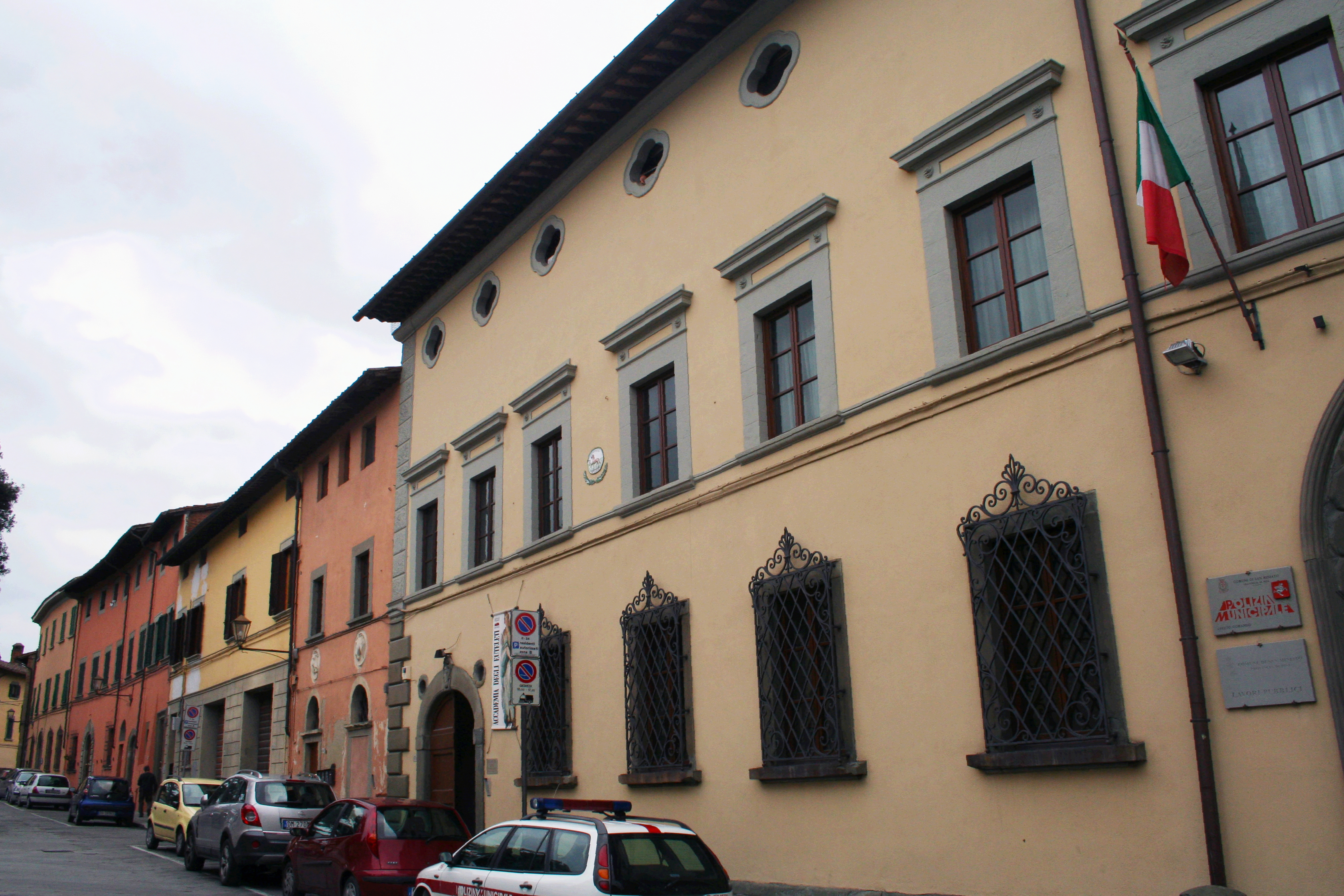 Palazzo Migliorati, seat of the "Accademia degli Euteleti", part of the System of Museums of San Miniato